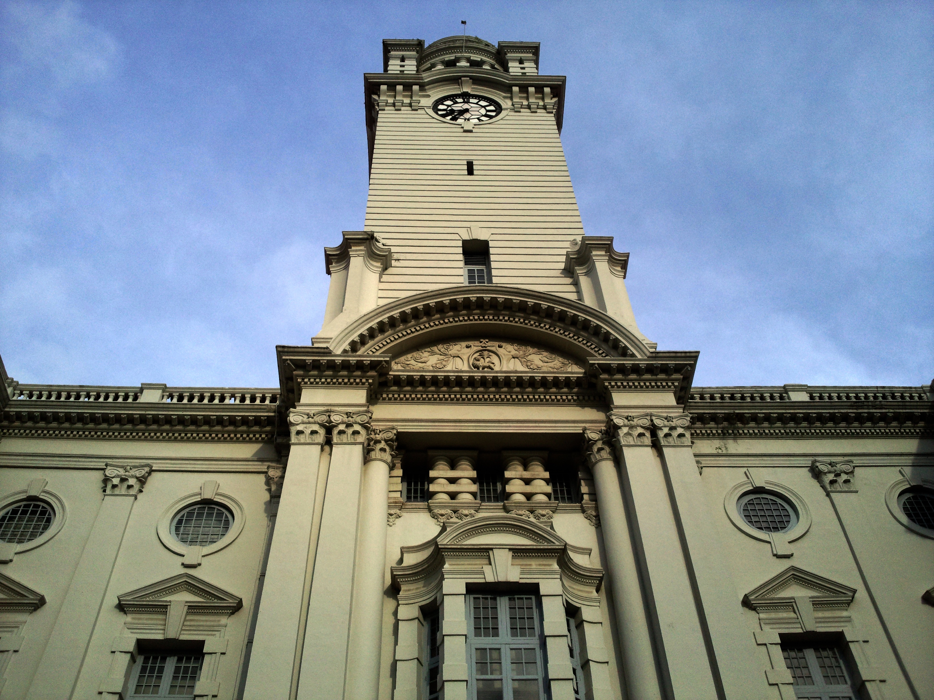 A photograph of the face of Victoria Theatre and clock tower